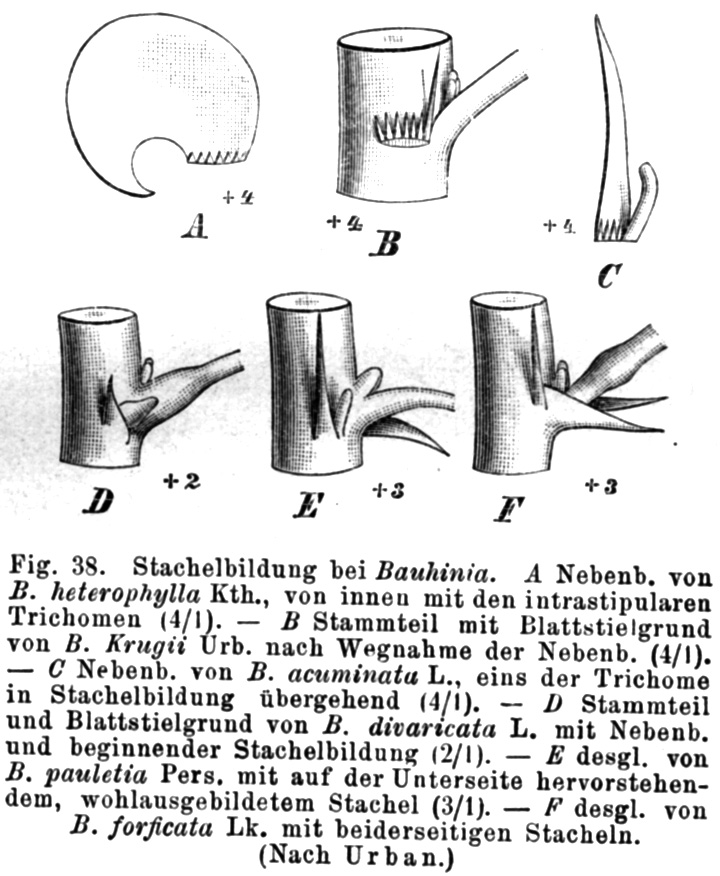 Illustration from book